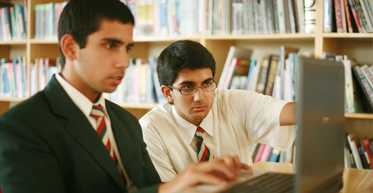 IT Students